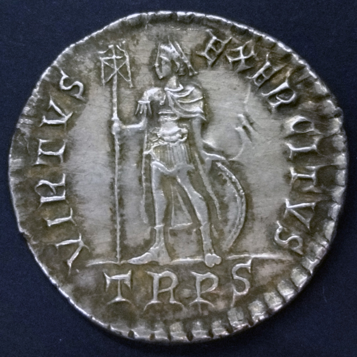 Roman miliarense coin of Valentinian showing mint mark TRPS. TR indicates the mint (Treveri - Trier, Germany) and PS indicates the purity of silver. Photo taken during BM/Wikipedia workshop. "VIRTUS EXCERCITUS" (Virtue of the army.)